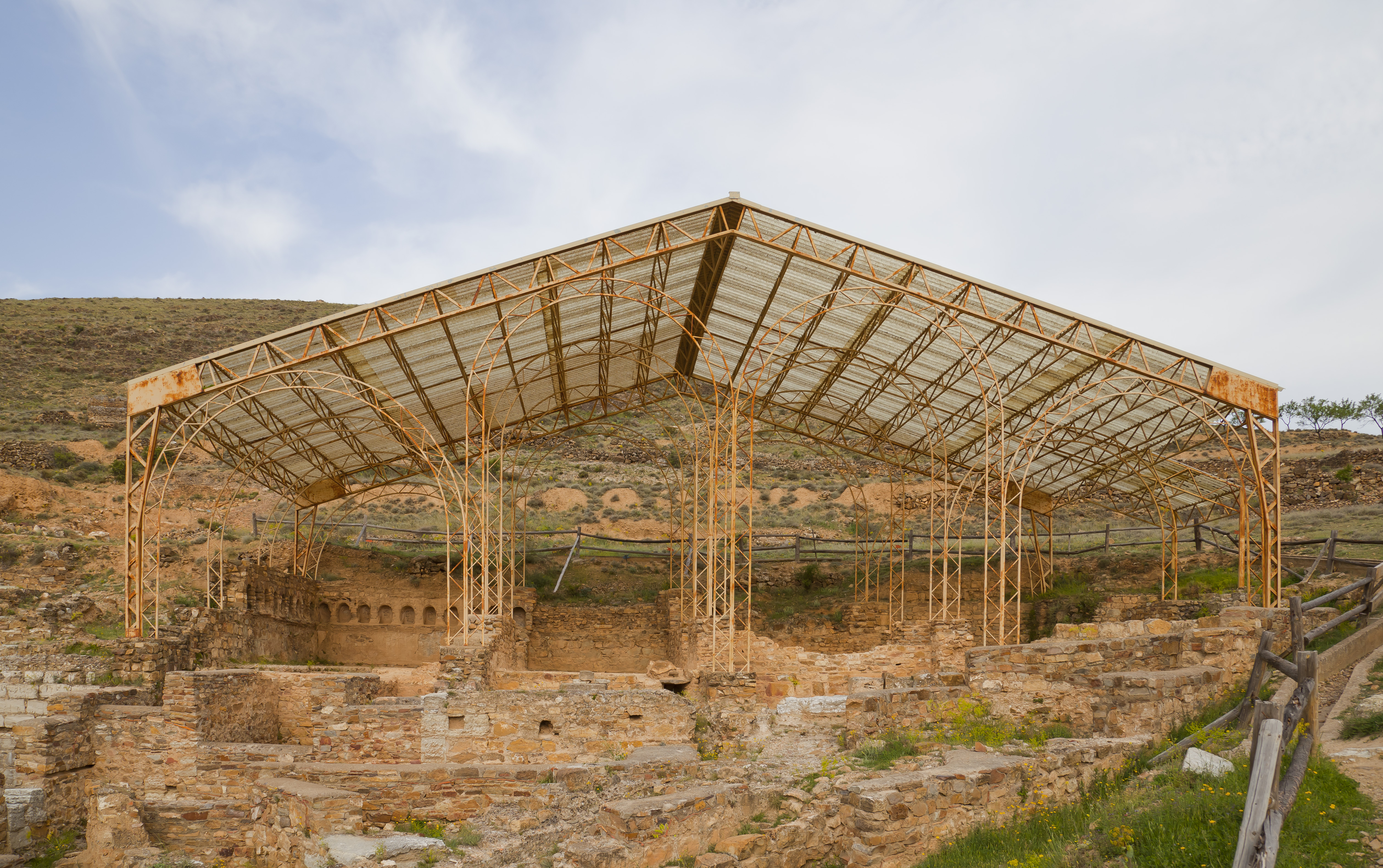 Ruins of the ancient roman city of Bilbilis, Calatayud, Spain